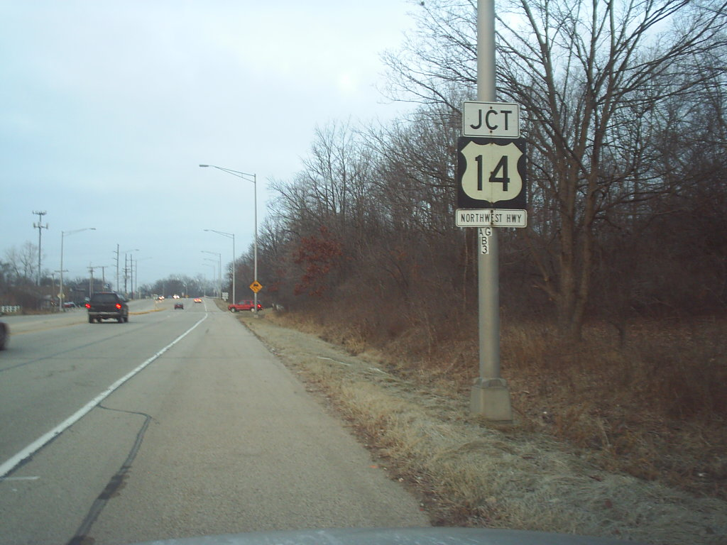 Illinois Route 68 approaching intersection with US Route 14